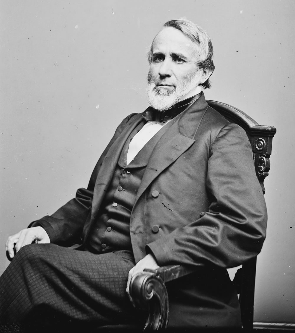 John Crisfield, U.S. Congressman from the state of Maryland.